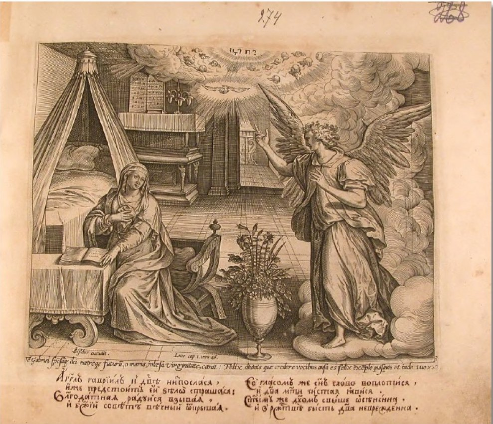 Piscator Bible 274